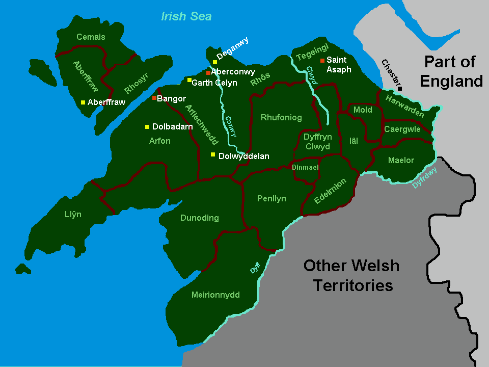 Map of the cantrefi, principal forts and political centres of Gwynedd at the kingdom's maximum extent, based on the historic borders of "between Dyfi and Dee". Map based on freeware outline from . The maps found in J.Beverley Smith's "Llywelyn ap Gruffudd" (1998) were used as a visual guide.